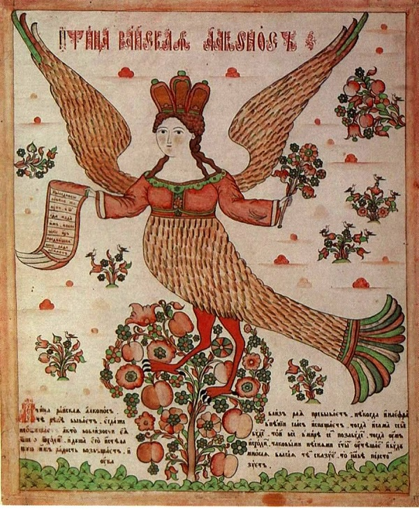 Alkonost. Russian Lubok of 18–19th Century